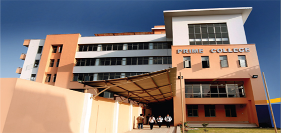 newprimecollege building